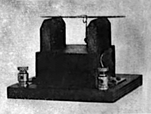 Photo of a carbon detector or "microphone detector" from 1909, a primitive coherer radio wave detector used in the first radio receivers. It was used from about 1900 to 1910 to receive Morse code radiotelegraphy transmissions from the first spark radio transmitters . The microphone detector was invented by David Edward Hughes, who stumbled on radio wave communication in 1879 while he was experimenting with carbon microphones. It consists of a steel needle resting across two sharp edged carbon blocks. One carbon was connected to the aerial and the other was connected to ground, so the radio waves from the antenna were applied across the needle contact. With no radio signal the device had a large resistance (megohms) but the radio wave altered the steel-carbon contact causing its resistance to drop. An earphone in series with a battery was connected across the carbons, so when the needle conducted electricity it made a hissing noise in the earphone. Greenleaf Whittier Pickard first observed radio wave rectification in 1902 with a similar detector. A semiconducting layer of corrosion on the needle which caused the device to act like a diode may have been responsible for the rectification. This was the first semiconductor diode. Information from Douglas, Alan (April 1981). "The Crystal Detector". IEEE Spectrum 18 (4): 64–69. ISSN 0018-9235.